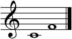 made by Koobak 19:26, 21 January 2006 (UTC) Perfect 4th